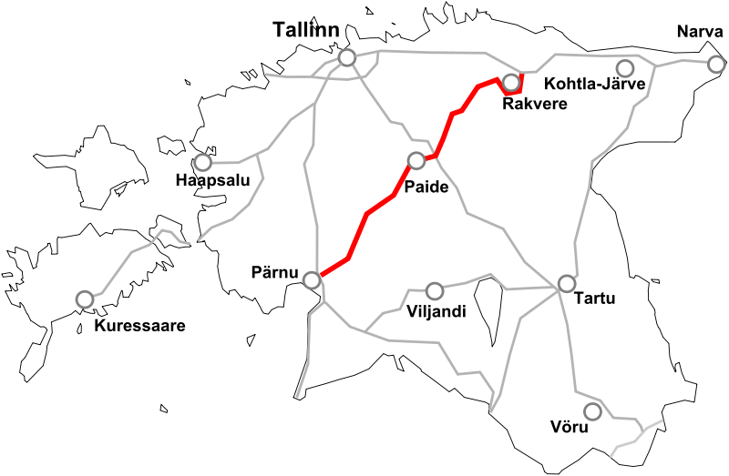 Map of Estonian national road 5, white background. Bigger cities marked.